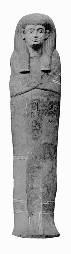 Coffin of parapoh Siptah.